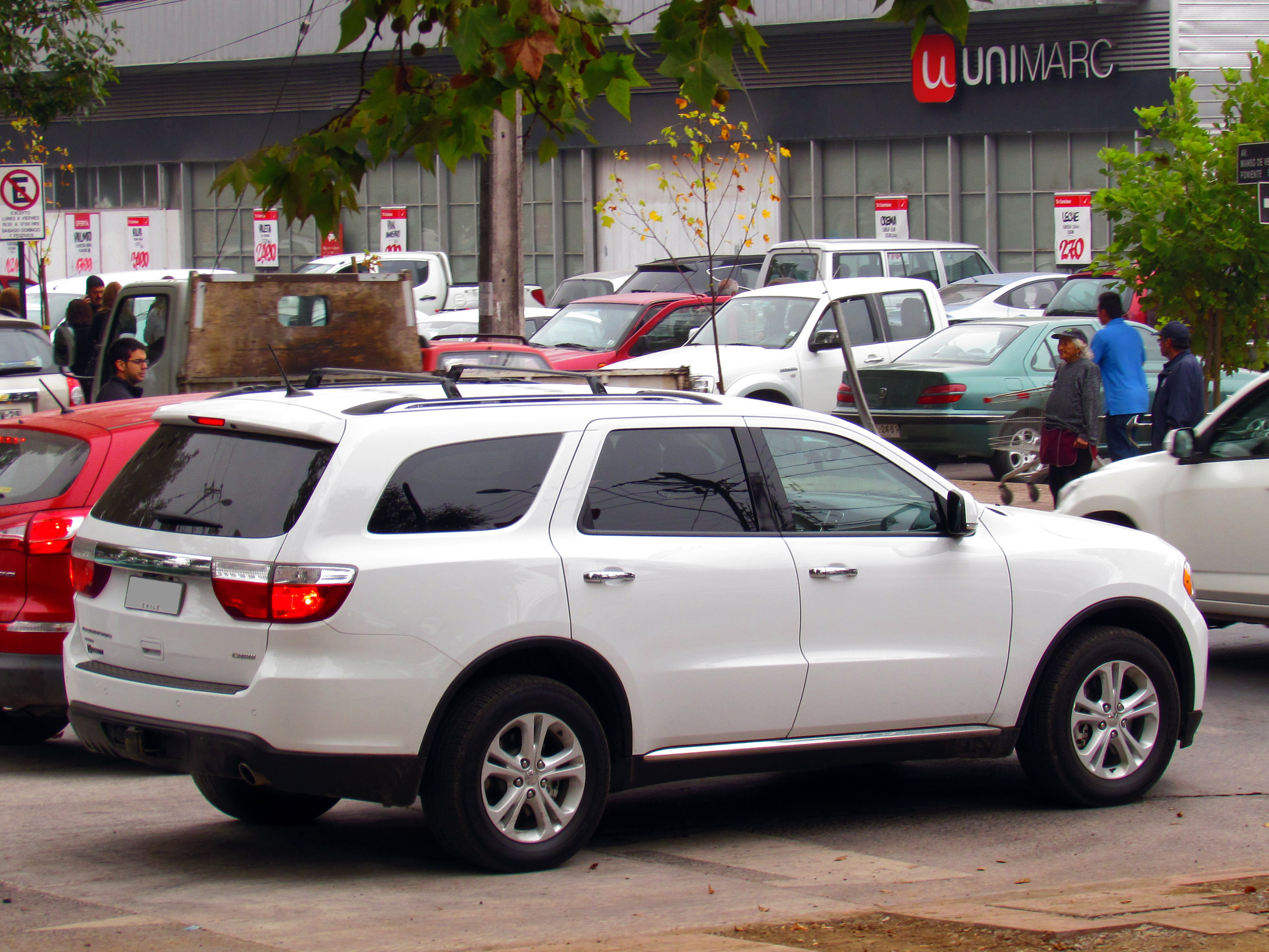 Dodge Durango 3.6 Crew 2014